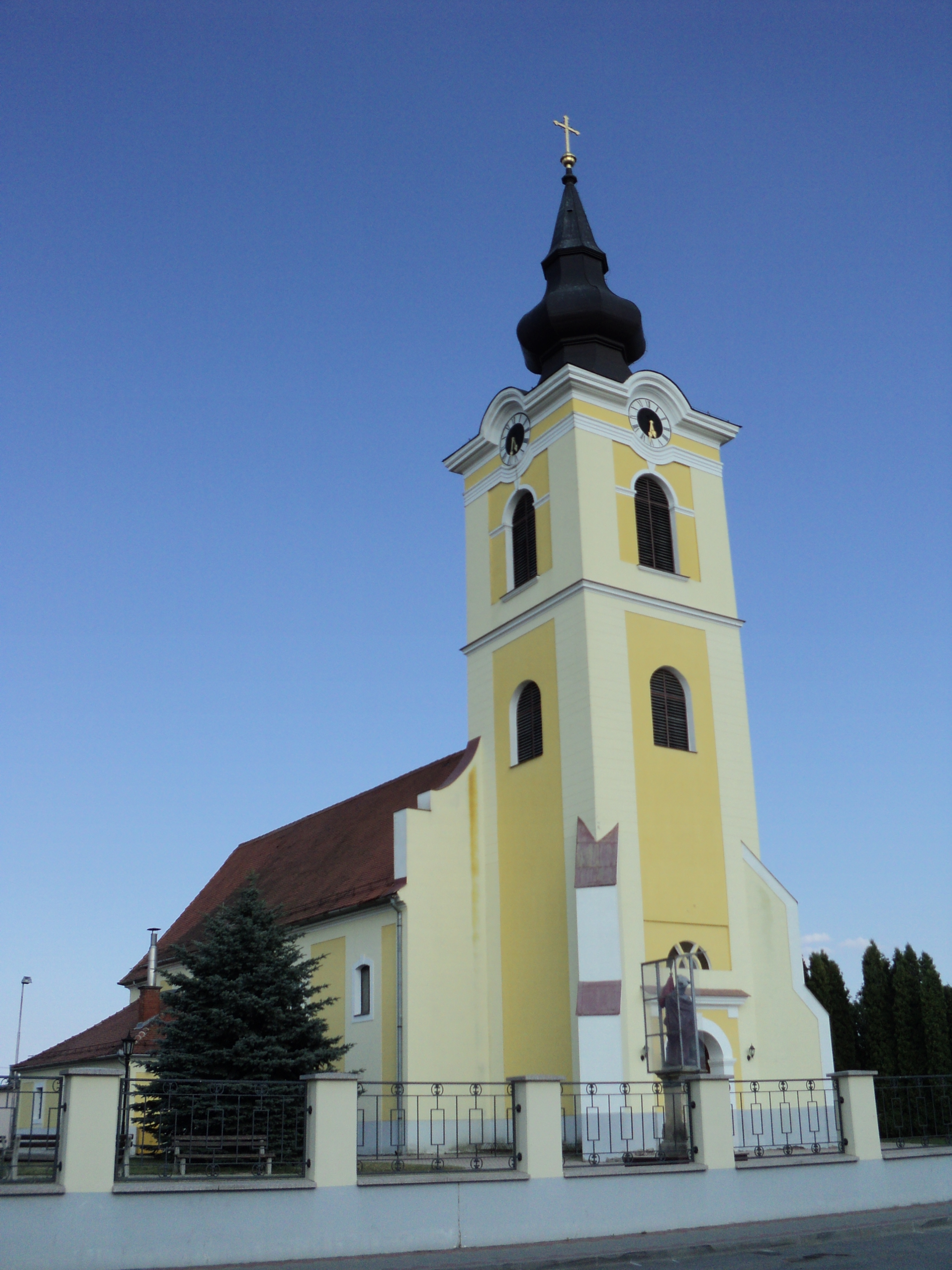 Church of Saint Michael in Donji Miholjac.